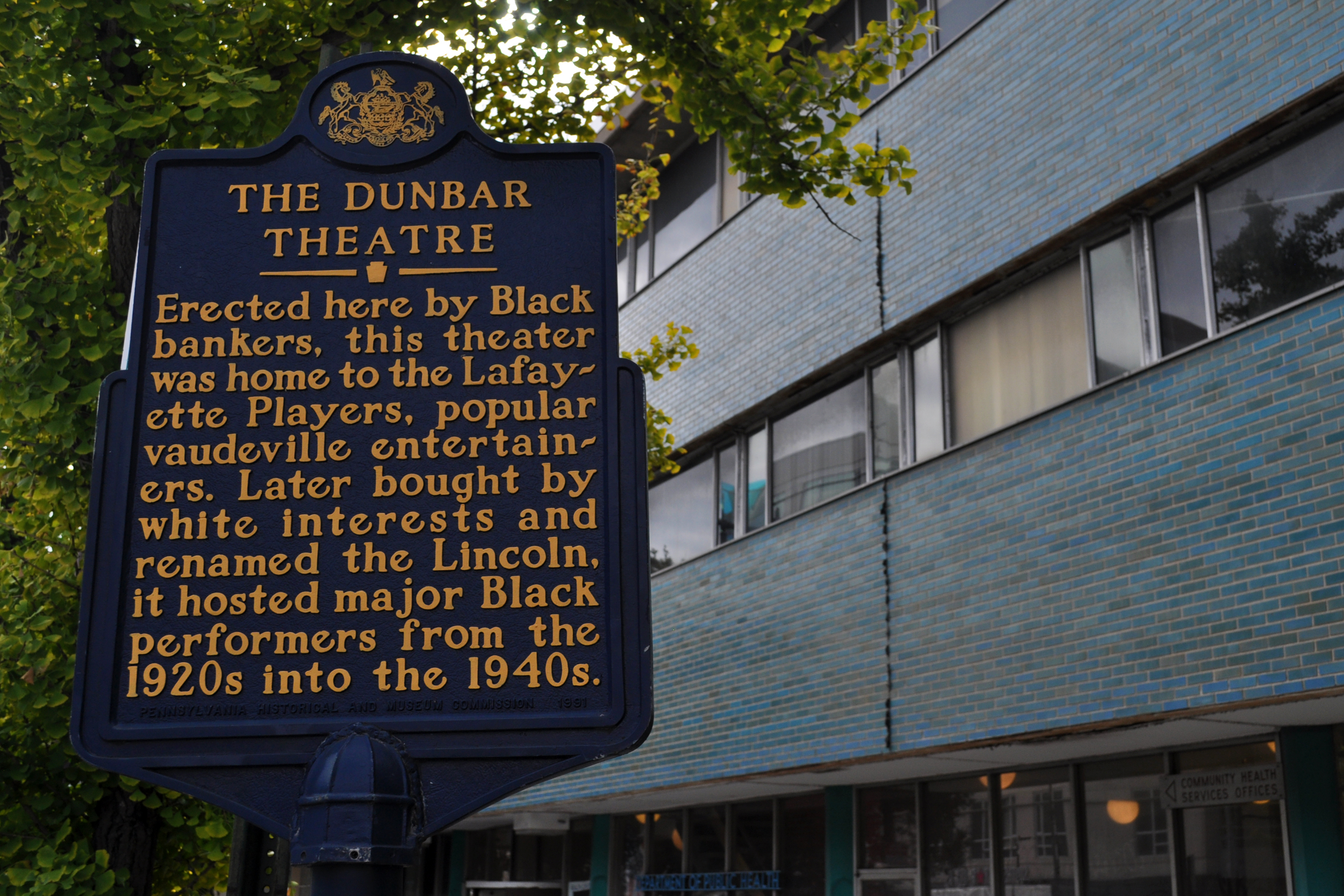 The Dunbar Theatre. Erected here by Black bankers, this theater was home to the Lafayette Players, popular vaudeville entertainers. Later bought by white interests and renamed the Lincoln, it hosted major Black performers from the 1920s into the 1940s. (Historical Marker at Southwest Corner Broad and Lombard Streets Philadelphia PA - PA Historical & Museum Commission 1991)